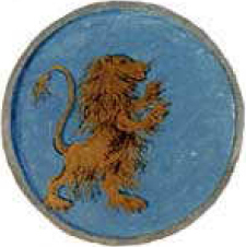 Coat of Arms of Słonim (1792)